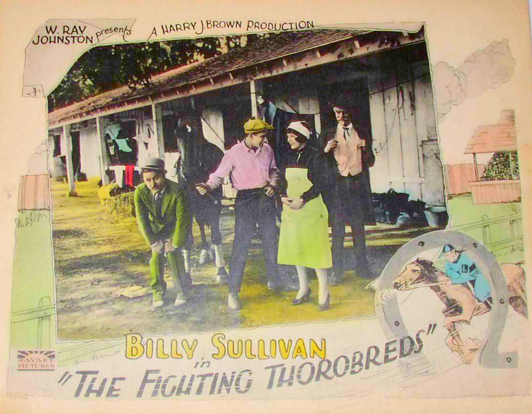 Lobby card for the 1926 film The Fighting Thorobreds.